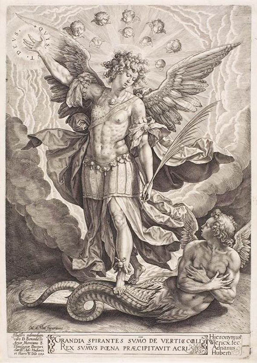 1584 Artwork by Hieronymus Wierix.